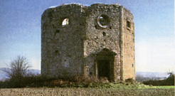 Church of San Giovanni in Val di Lago, Lazio, Italy